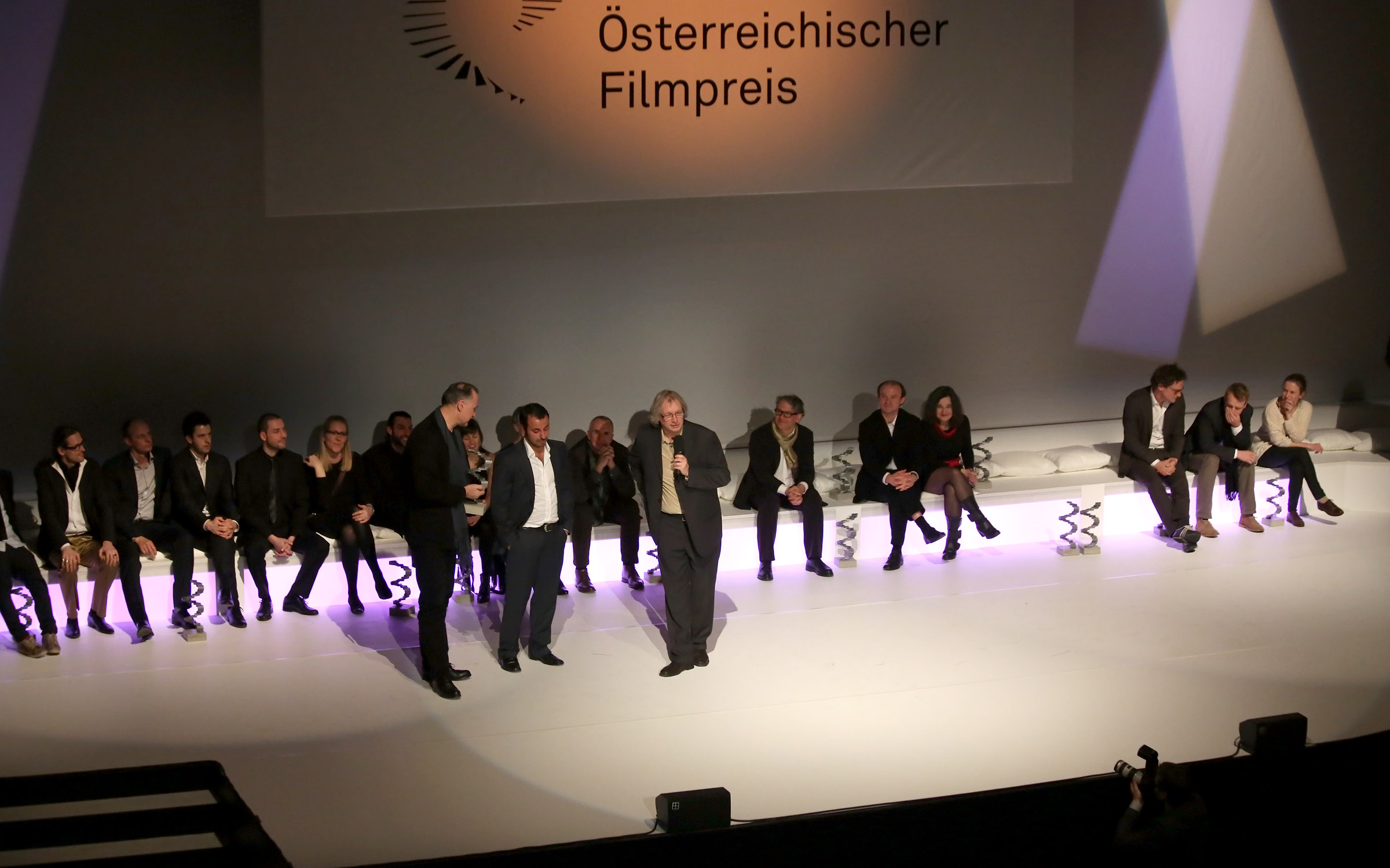 Kurt Stocker (l.), Hüseyin Tabak and Danny Krausz (producers of the best movie: "Deine Schönheit ist nichts wert"), Austrian Film Awards 2014 (Grafenegg, Austria).